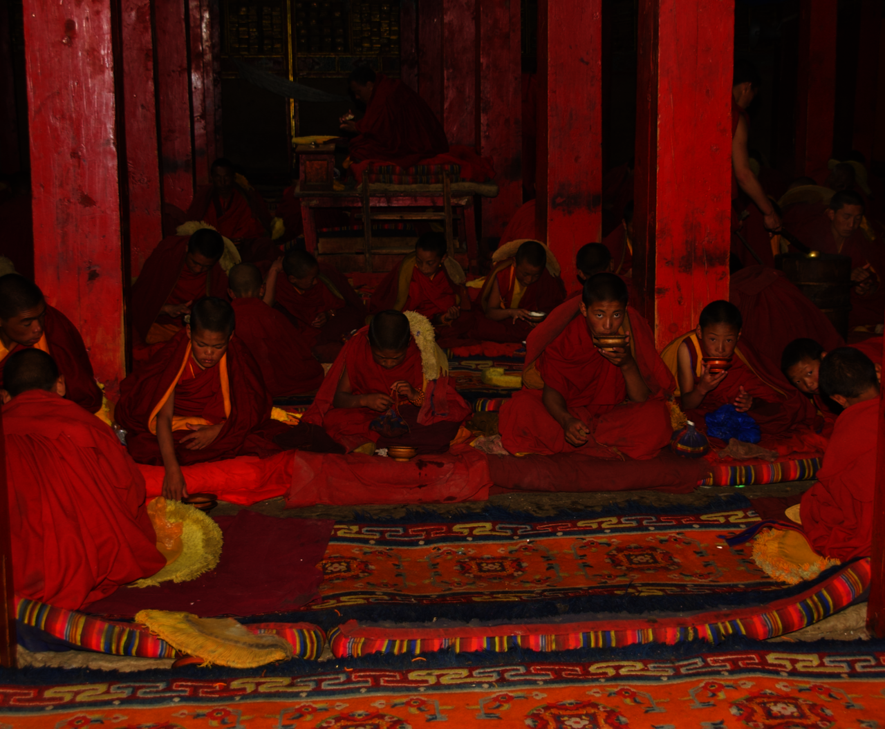 Gelug novices at luch in Sershul Monastery, Qinghai Аҧсшәа: Novizi Gelugpa a pranzo nel monastero di Sershul, Qinghai